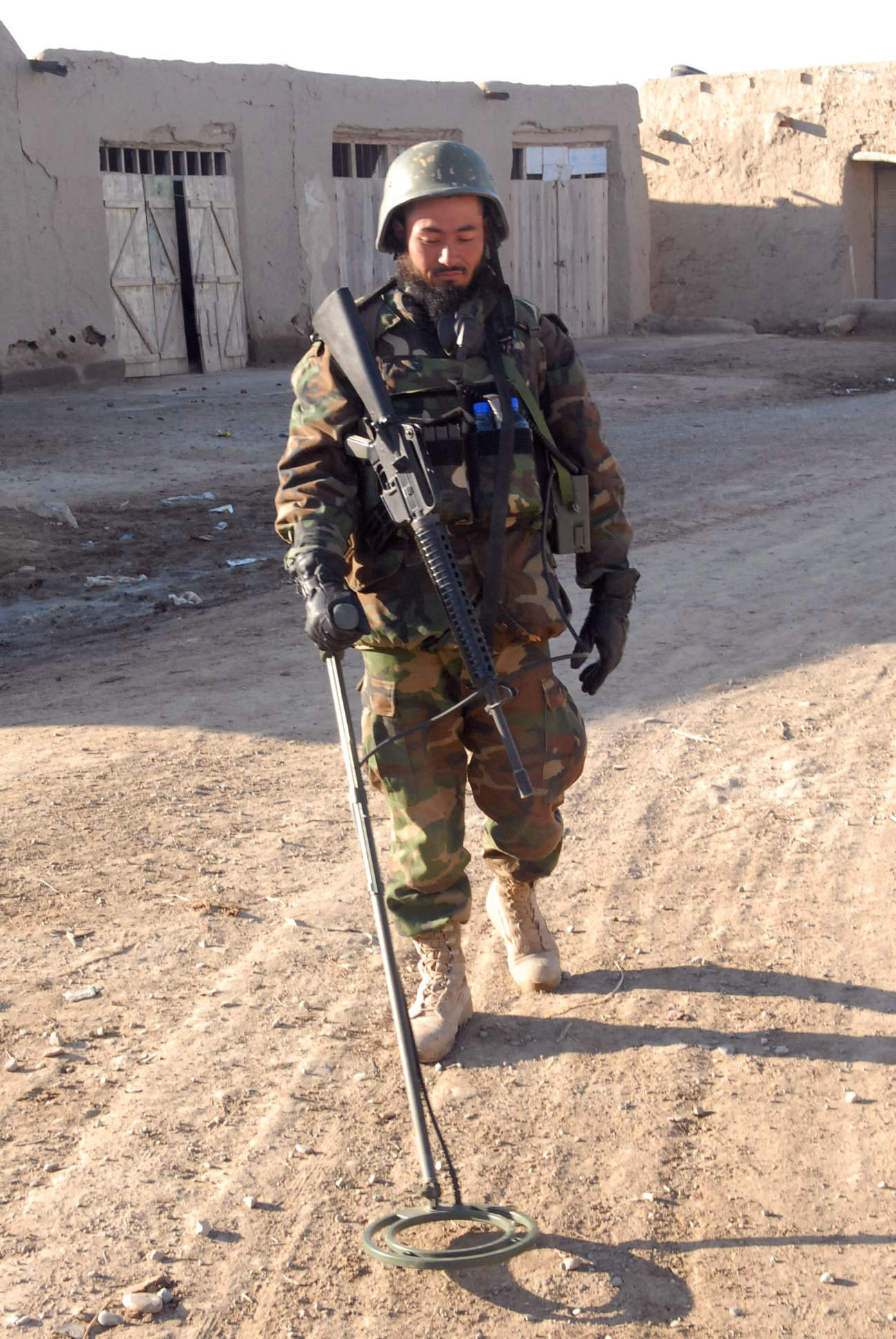 Afghan National Army soldier using a metal detector during a search in a village near Forward Operating Base Sperwan Ghar